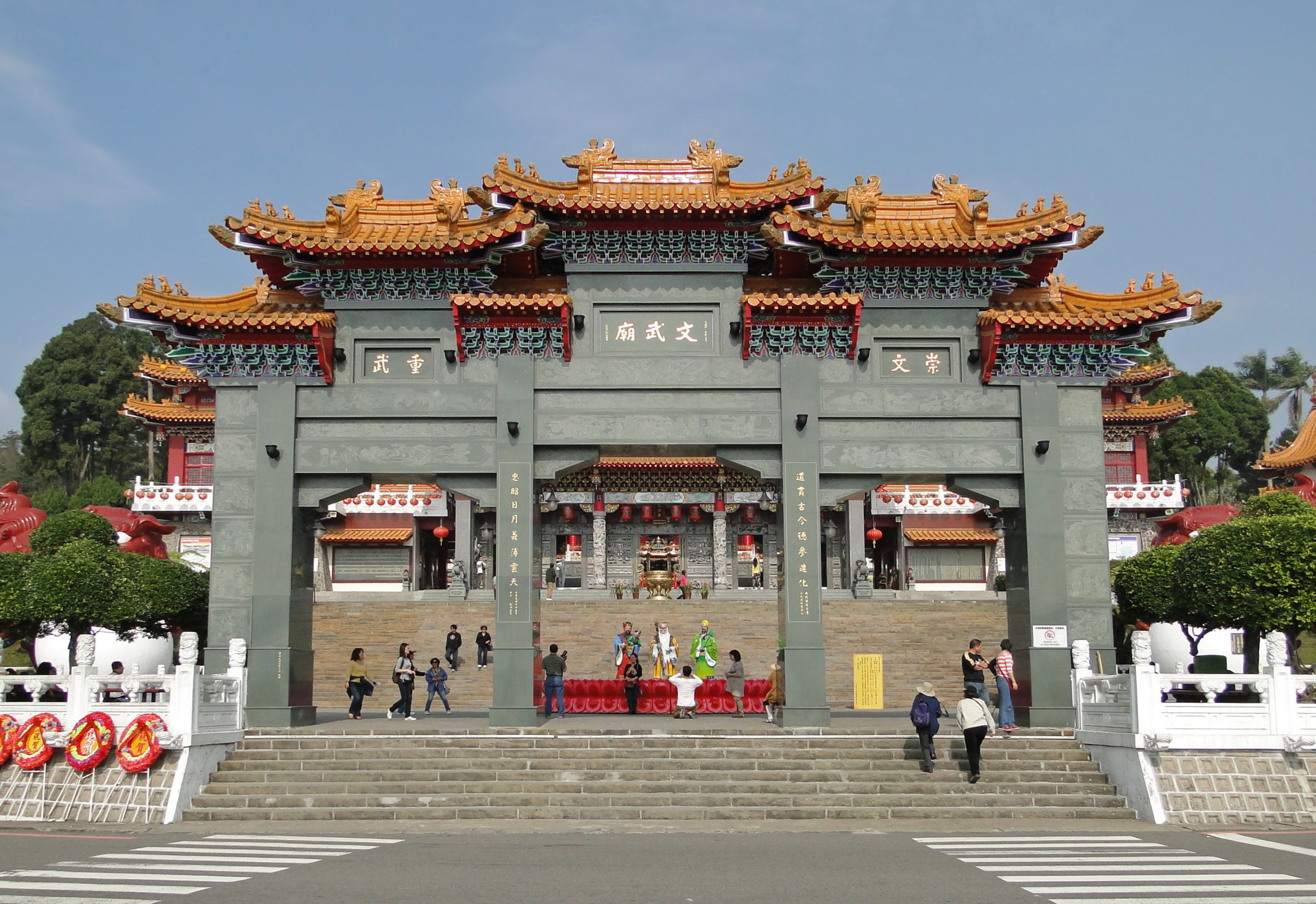 Main gate of Wen Wu Temple at Sun Moon Lake, Nantou county, Taiwan